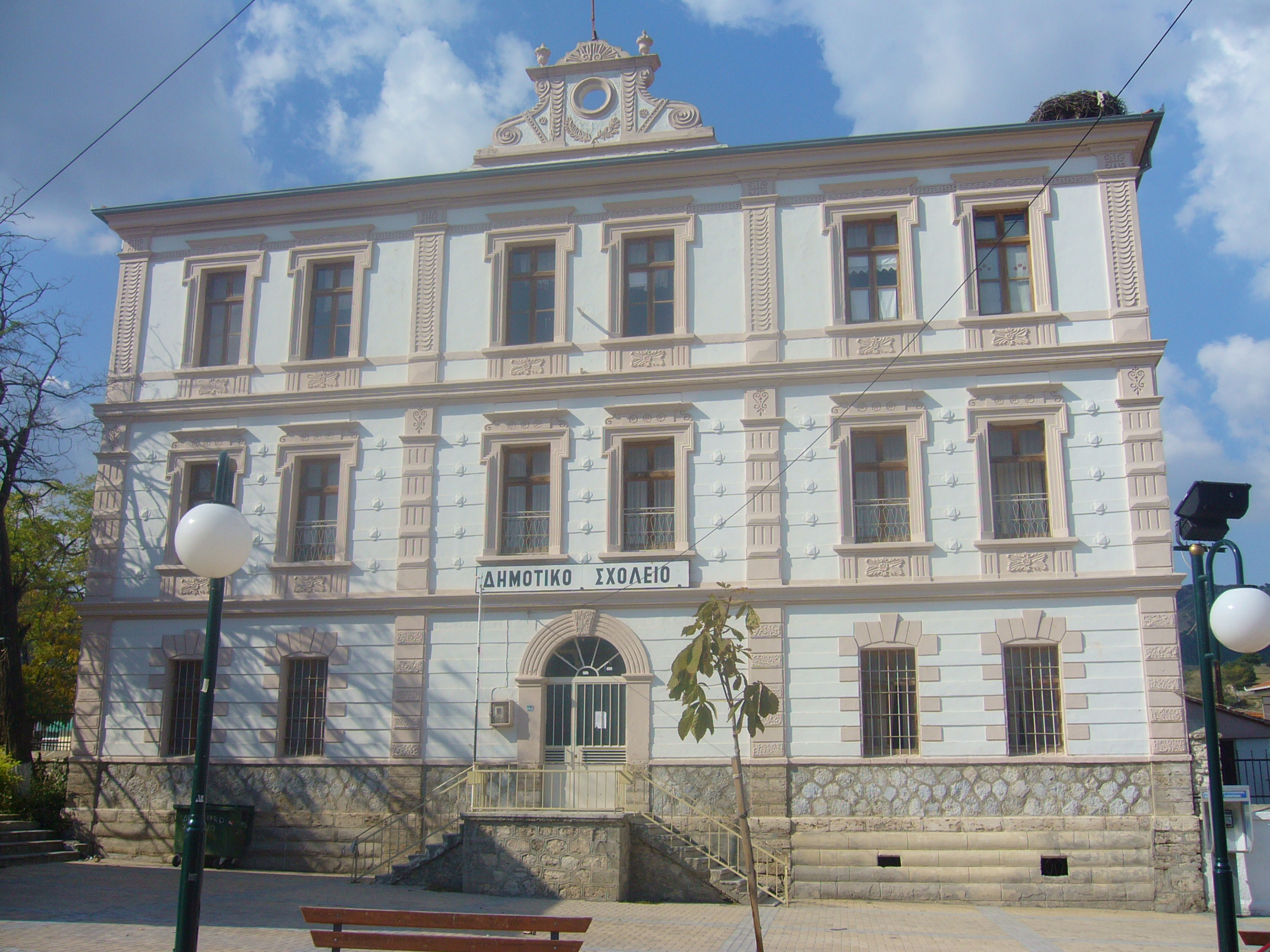 Primary school in the village of Xino Nero, Municipality of Amydeo in the Florina prefecture, Greece.